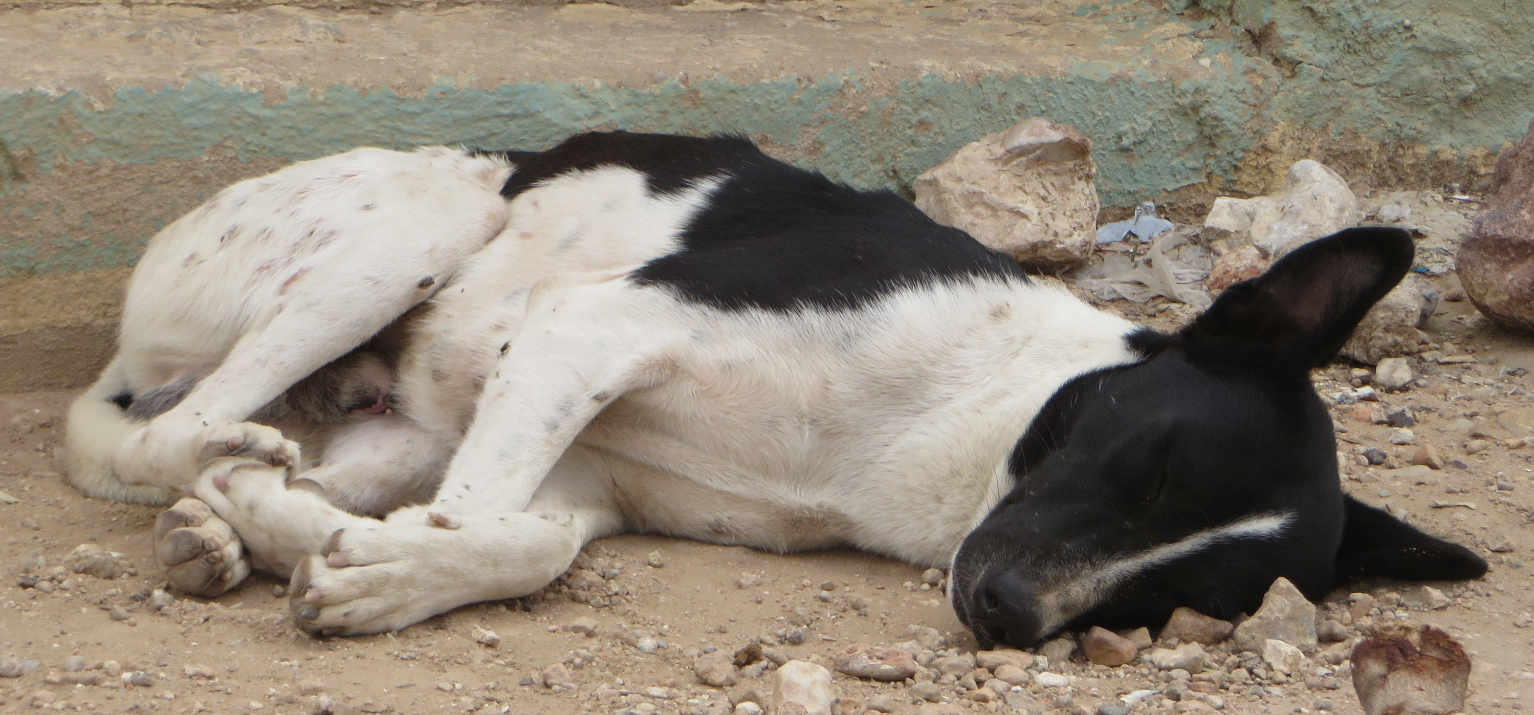 Sleeping dog on a street of Hargeysa, Somaliland, Gerard van de Bruinhorst, 2019.